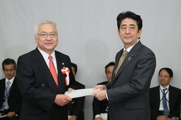 Norio Sasaki, Member of the Council on Economic and Fiscal Policy, Cabinet Office, handed the report to Shinzō Abe, Prime Minister, at the Prime Minister's Official Residence in Chiyoda Ward, Tōkyō Metropolis on December 12, 2013.